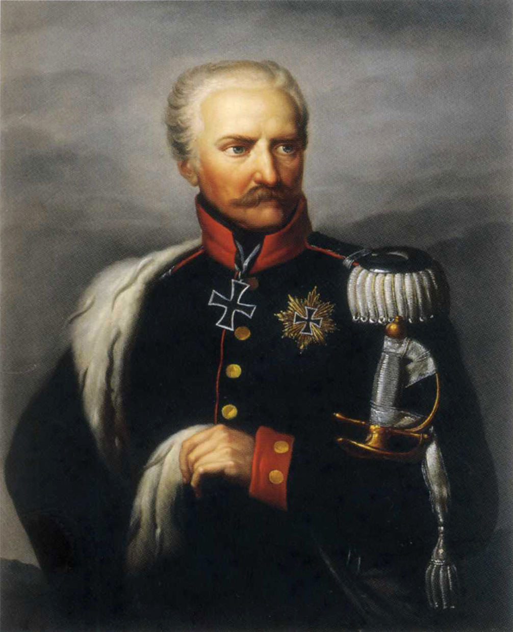 Gebhard Leberecht von Blücher. Artist unknown, copying Paul Ernst Gebauer.